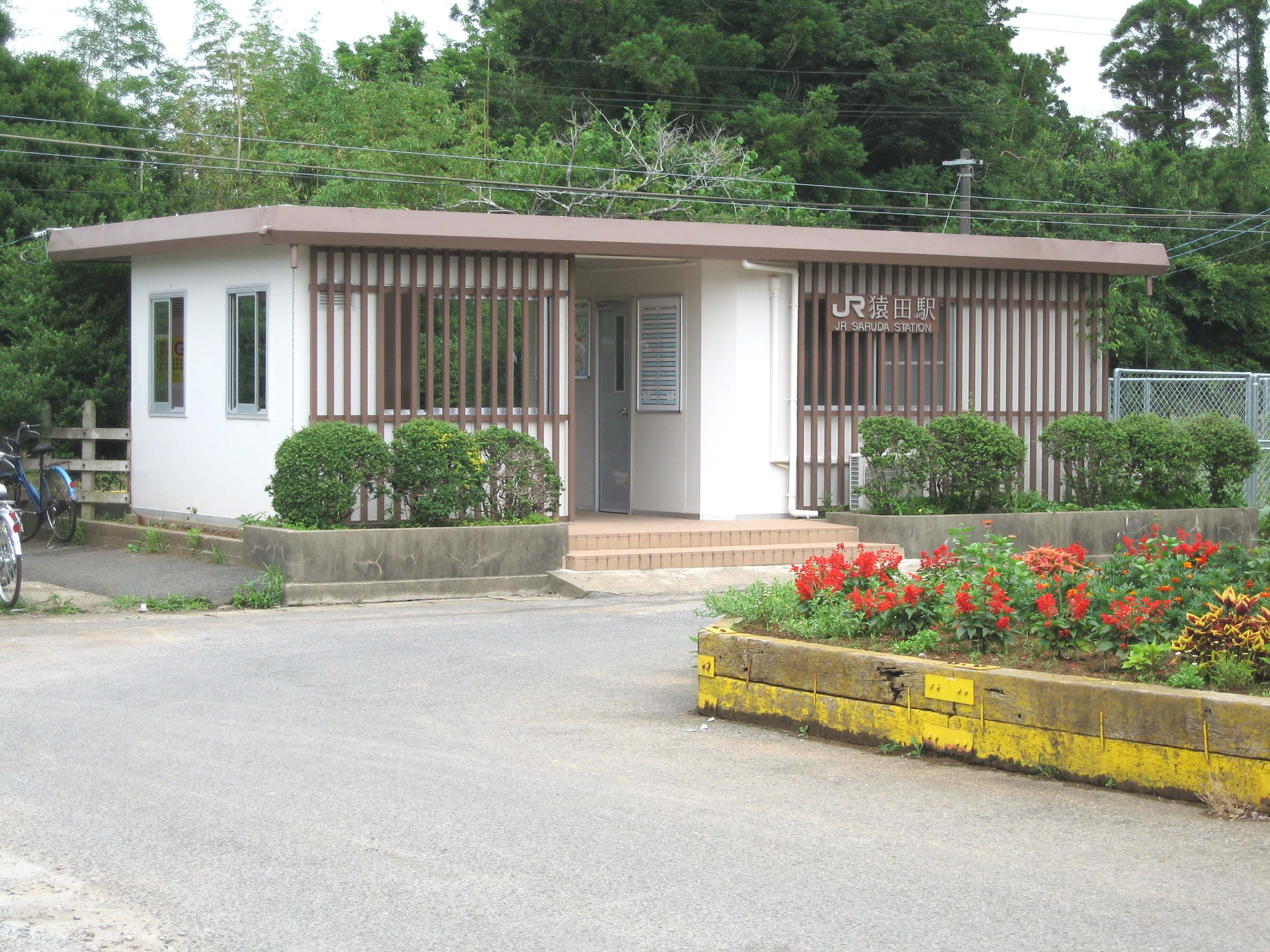 Saruta station, Soubu-Honsen Line, Chiba, Japan, 猿田駅駅舎